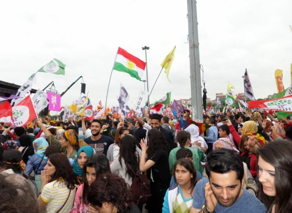 Peoples' Democratic Party (Turkey) Celebration after Turkish general election, 2015 in Istanbul